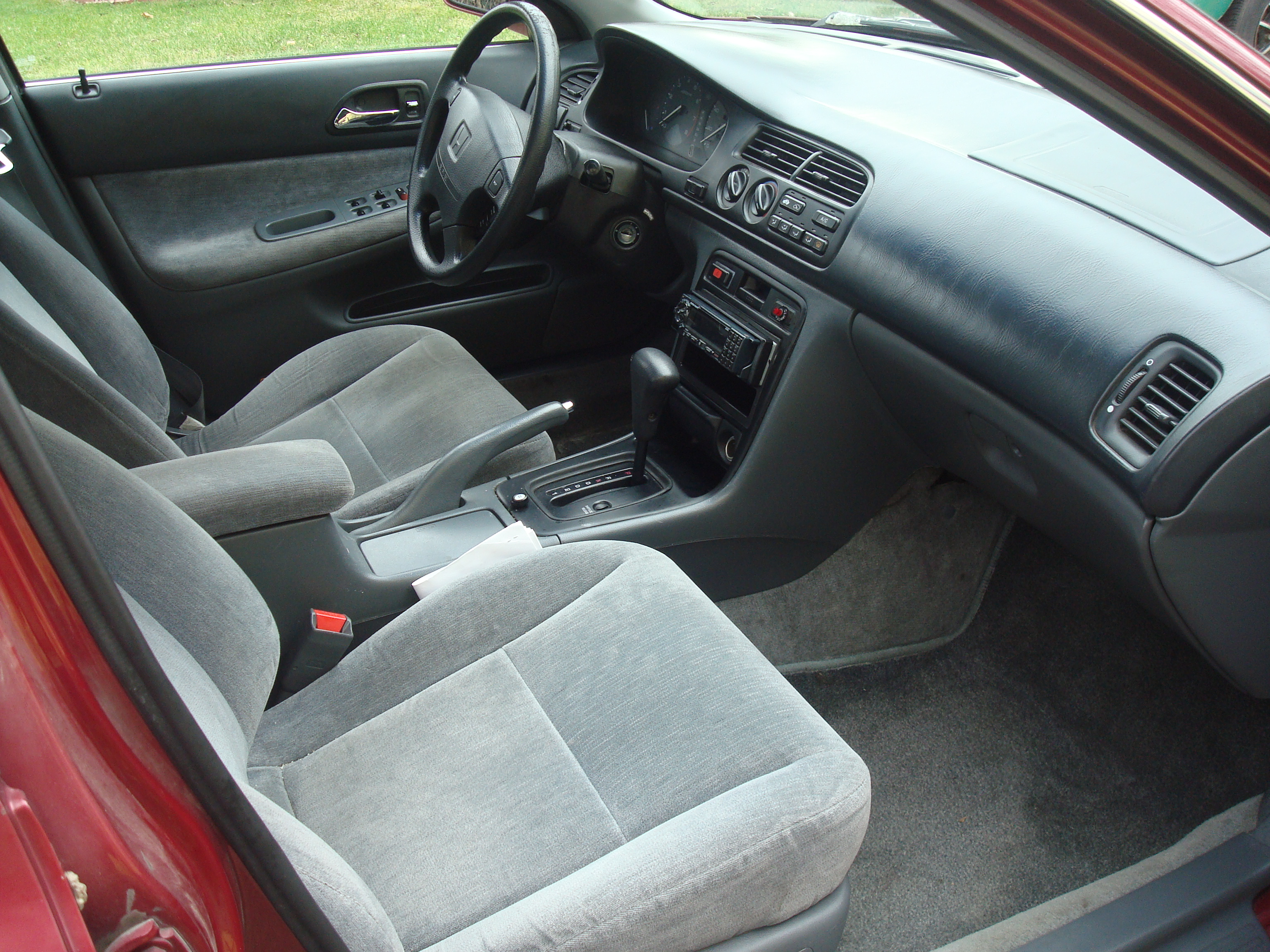 US-spec 1994 Honda Accord 4-door LX interior with automatic transmission and aftermarket stereo system.